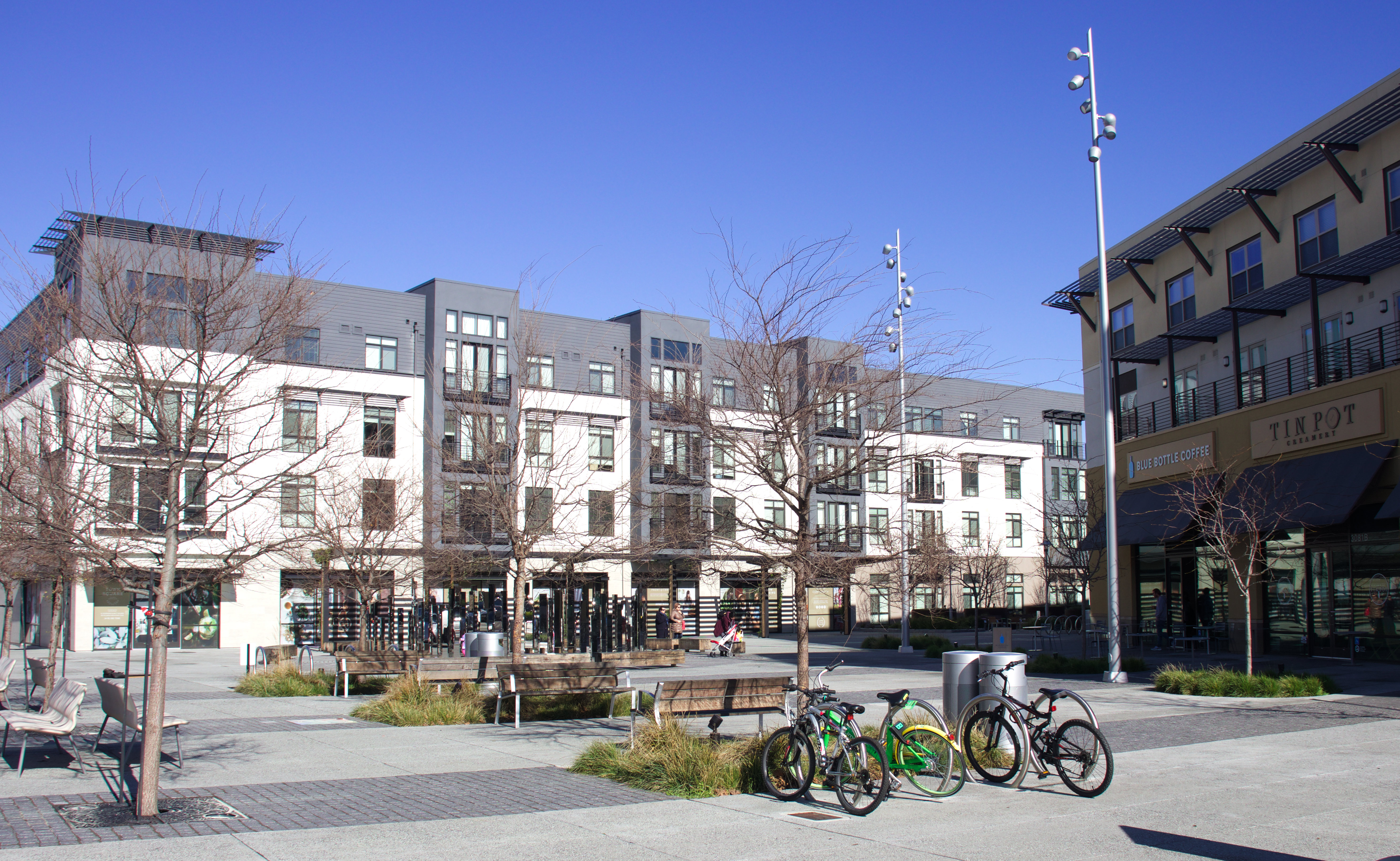 Town Square in Bay Meadows neighborhood, San Mateo, California